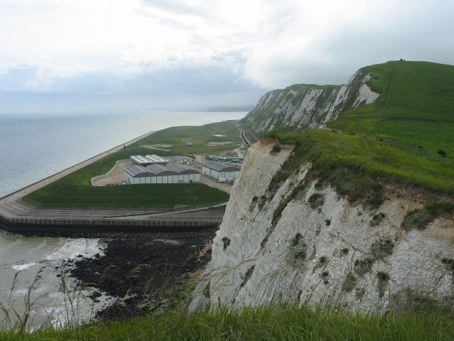 Samphire Hoe. Looking down on Samphire Hoe, which is all on reclaimed land using spoil from construction of the Channel Tunnel. The building complex is the ventilation plant for the tunnel, the west end is being landscaped and is becoming a diverse area for wildlife. (was named Samphire Hoe as a result of what to call the area competition - Eurotunnel just called it Shakespeare Cliff work area, after the cliffs that dominate the north edge.)